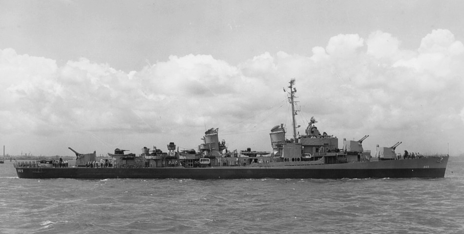 The U.S. Navy destroyer USS Charles R. Ware (DD-865) off Bethlehem Steel, Staten Island, New York (USA), on 20 July 1945. Seh was commissioned on the next day.